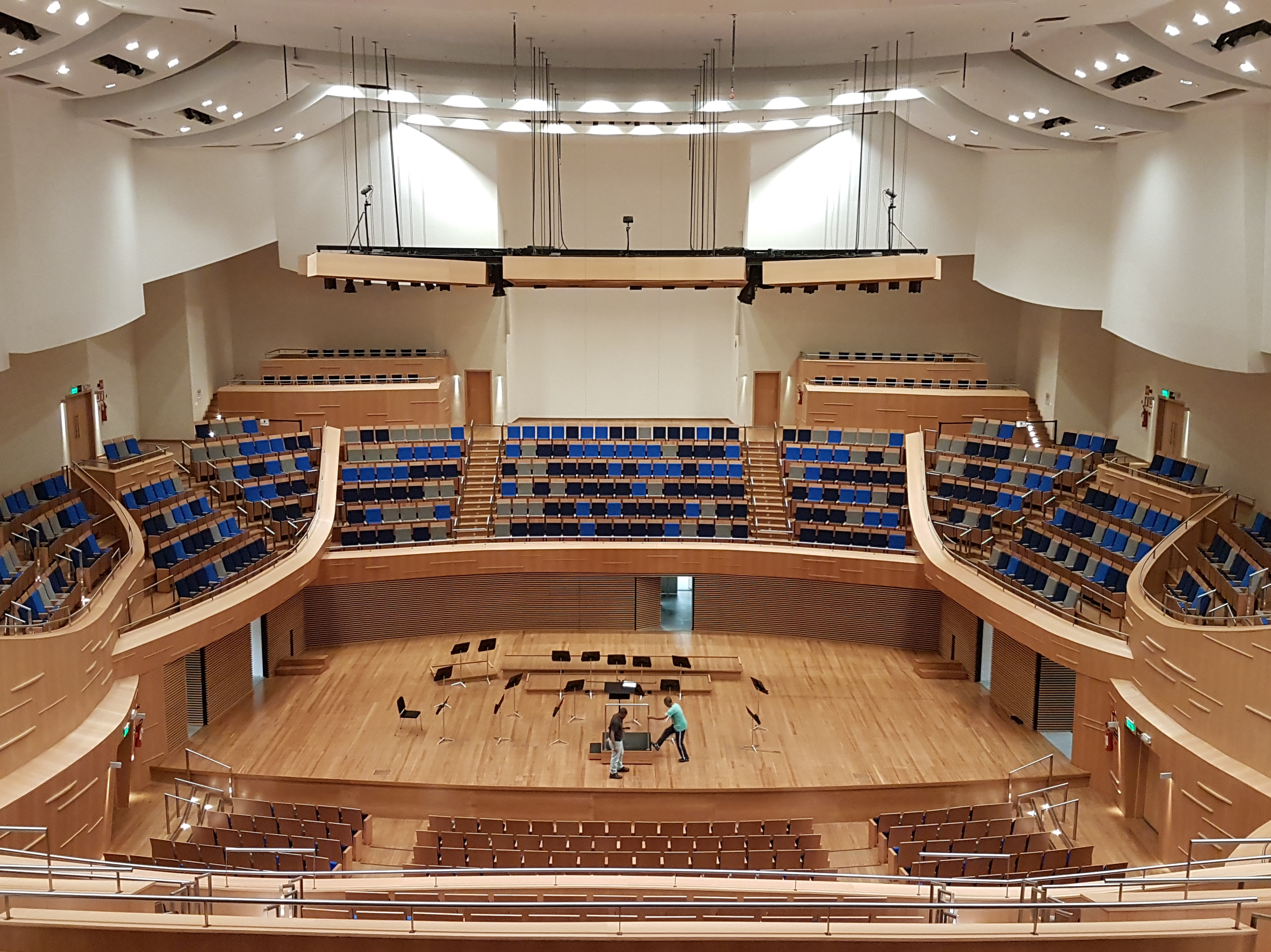 View from the auditorium of Sala Minas Gerais